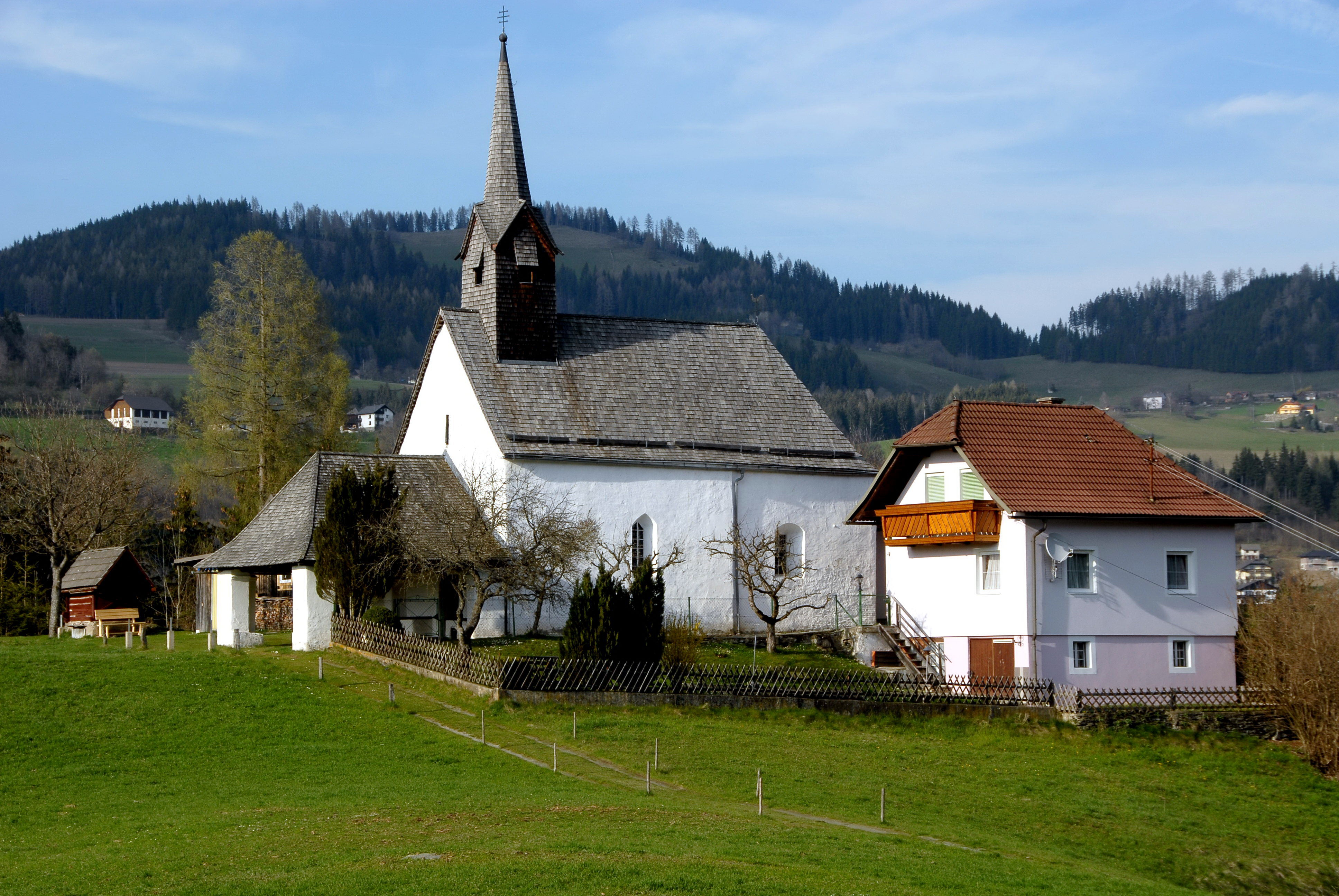 Chapel at the locality Wasai in the community Liebenfels in the district of Saint Veit by the Glan, Carinthia, Austria.